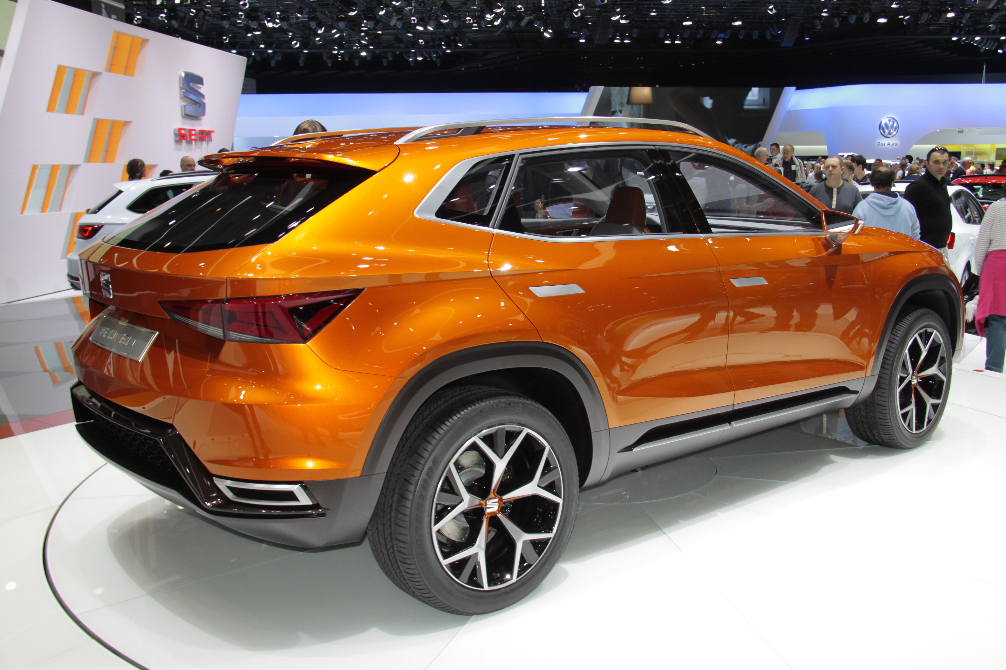 SEAT 20V20 Concept car at the 2015 Geneva Motorshow